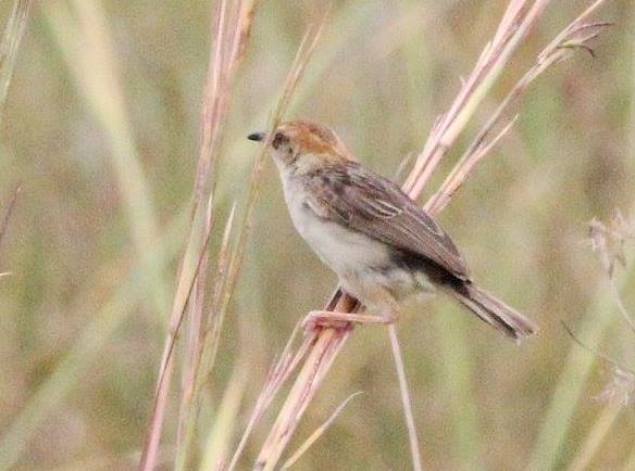 Winding cisticola at Kuito in central Angola